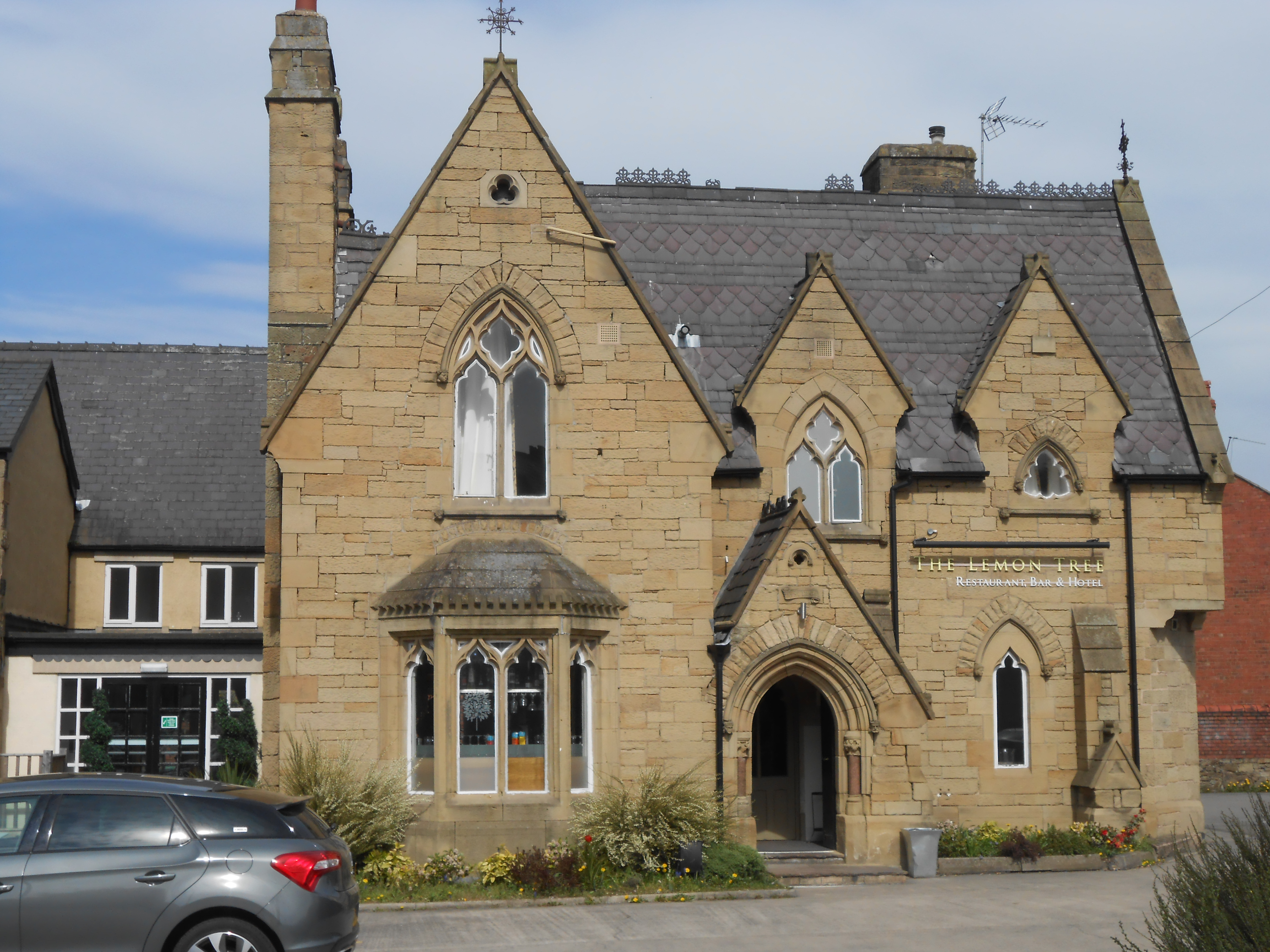 The Lemon Tree restaurant, bar and hotel, Rhosddu Road, Wrexham, Wales.